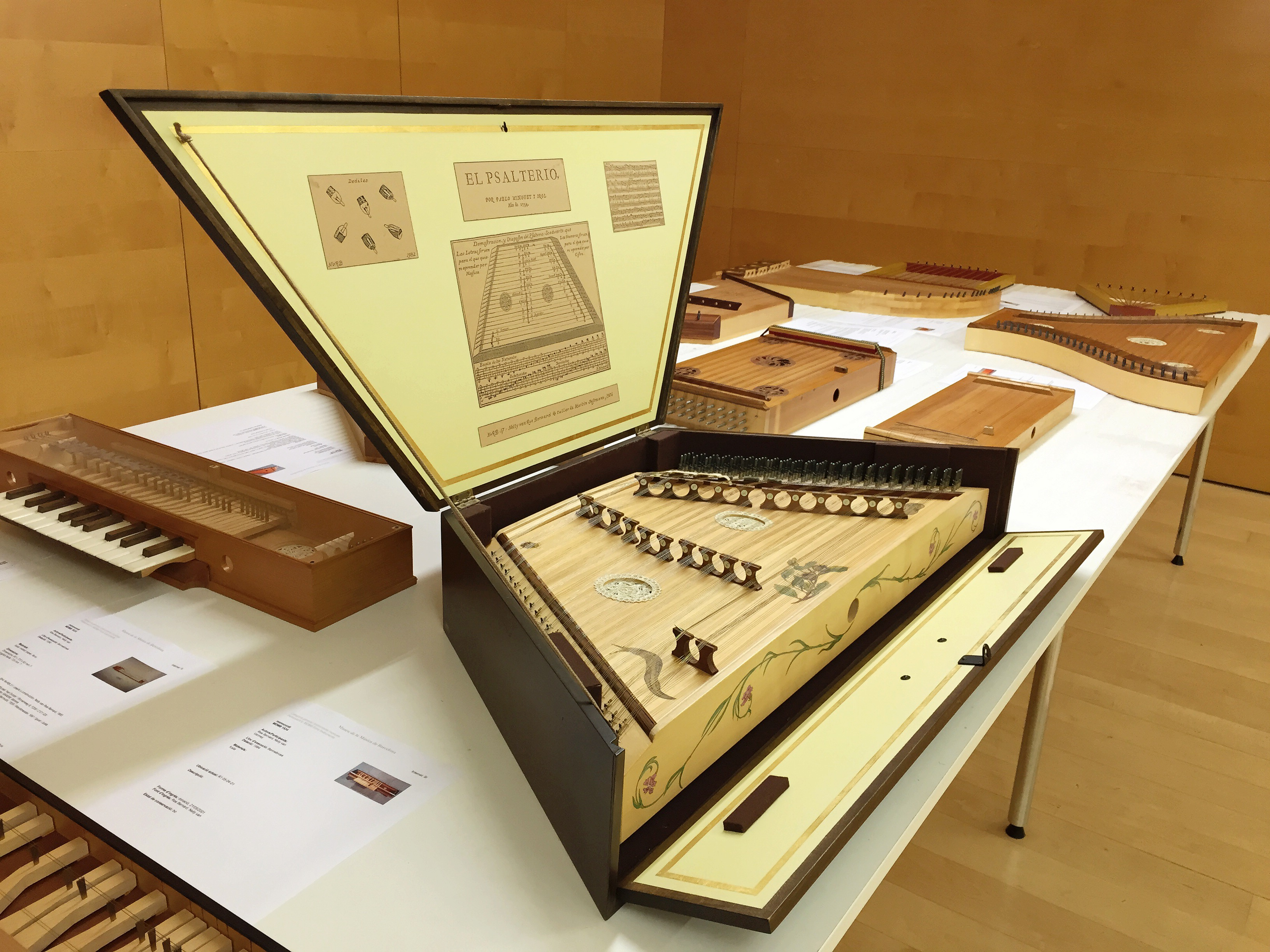 Collection of psalteries and other instruments built by Nelly van Ree and donated to the Museu de la Música de Barcelona.